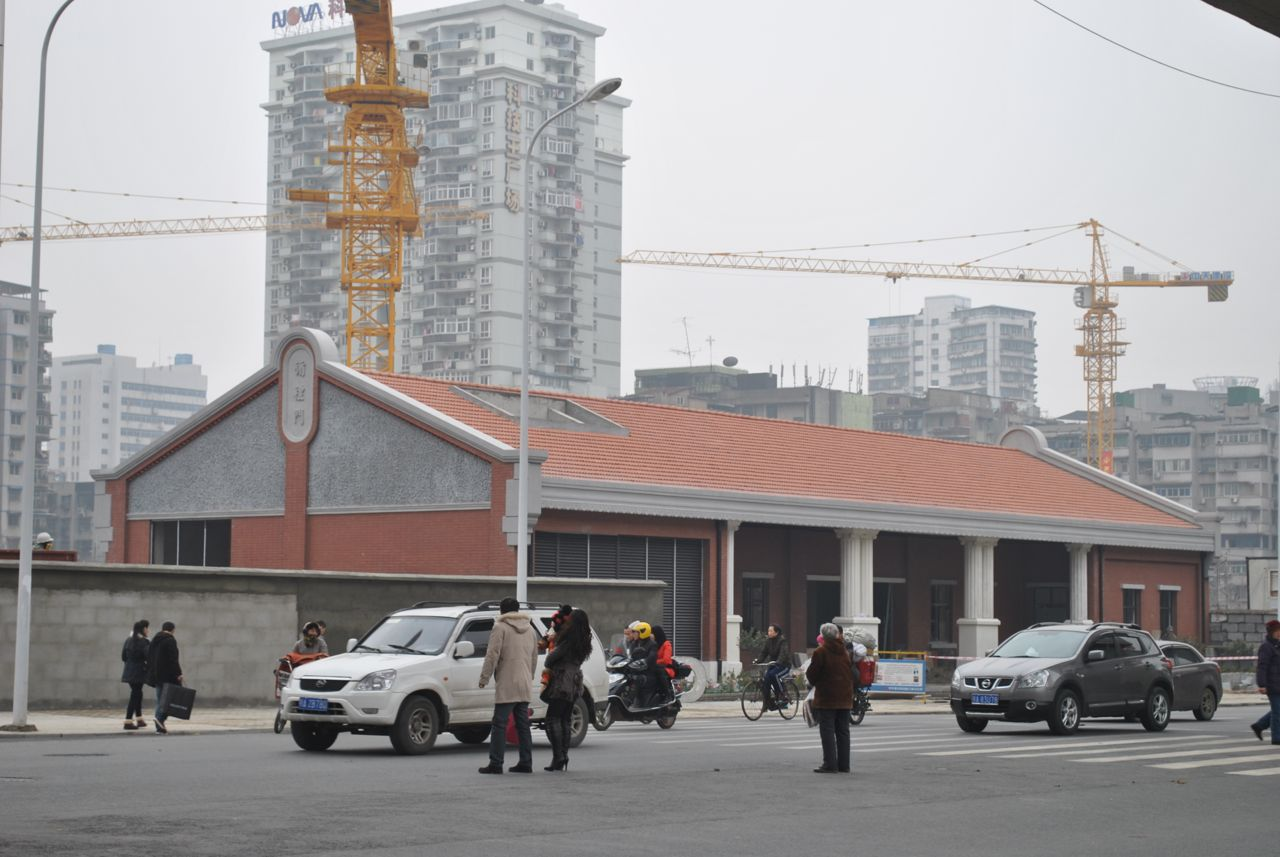 Xunlimen Station